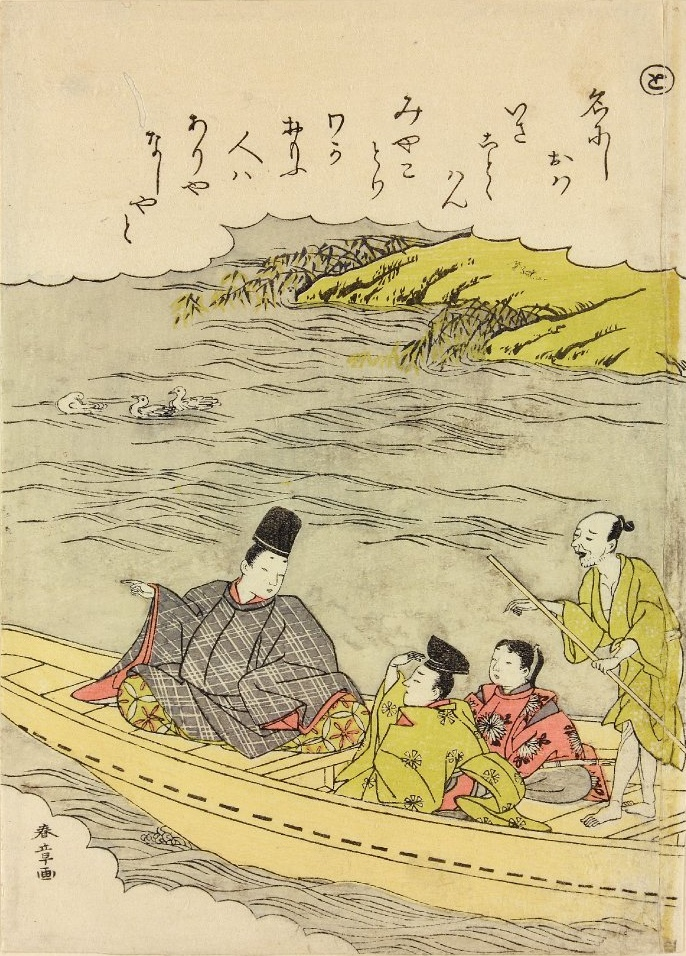 woodblock print by Katsukawa Shunshō, series ’Ise monogatari’, c. 1770